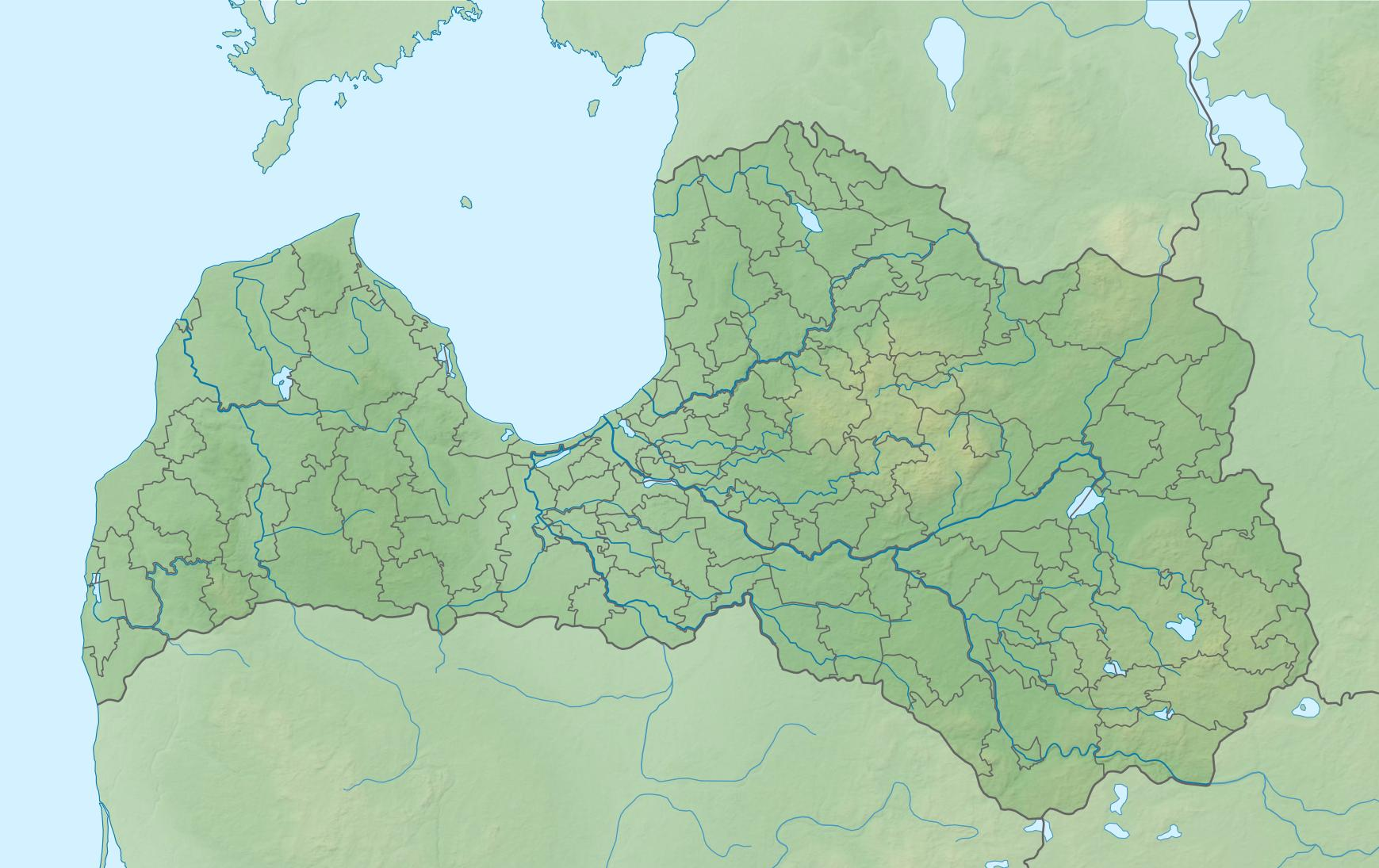 Location map of Latvia